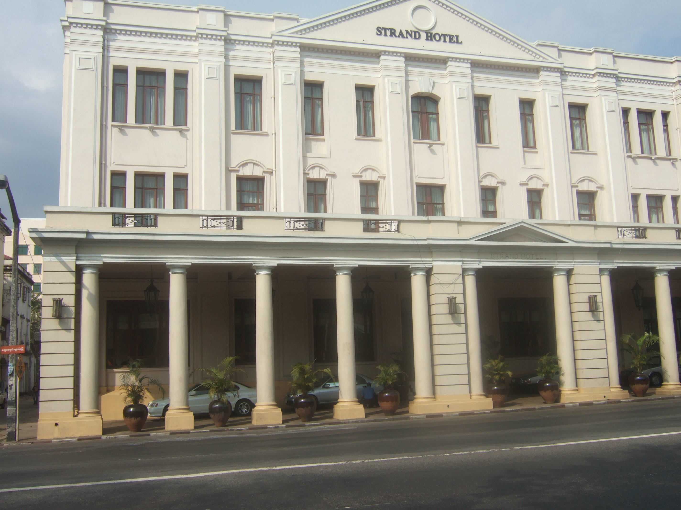 The Strand Hotel in Yangoon, Myanmar